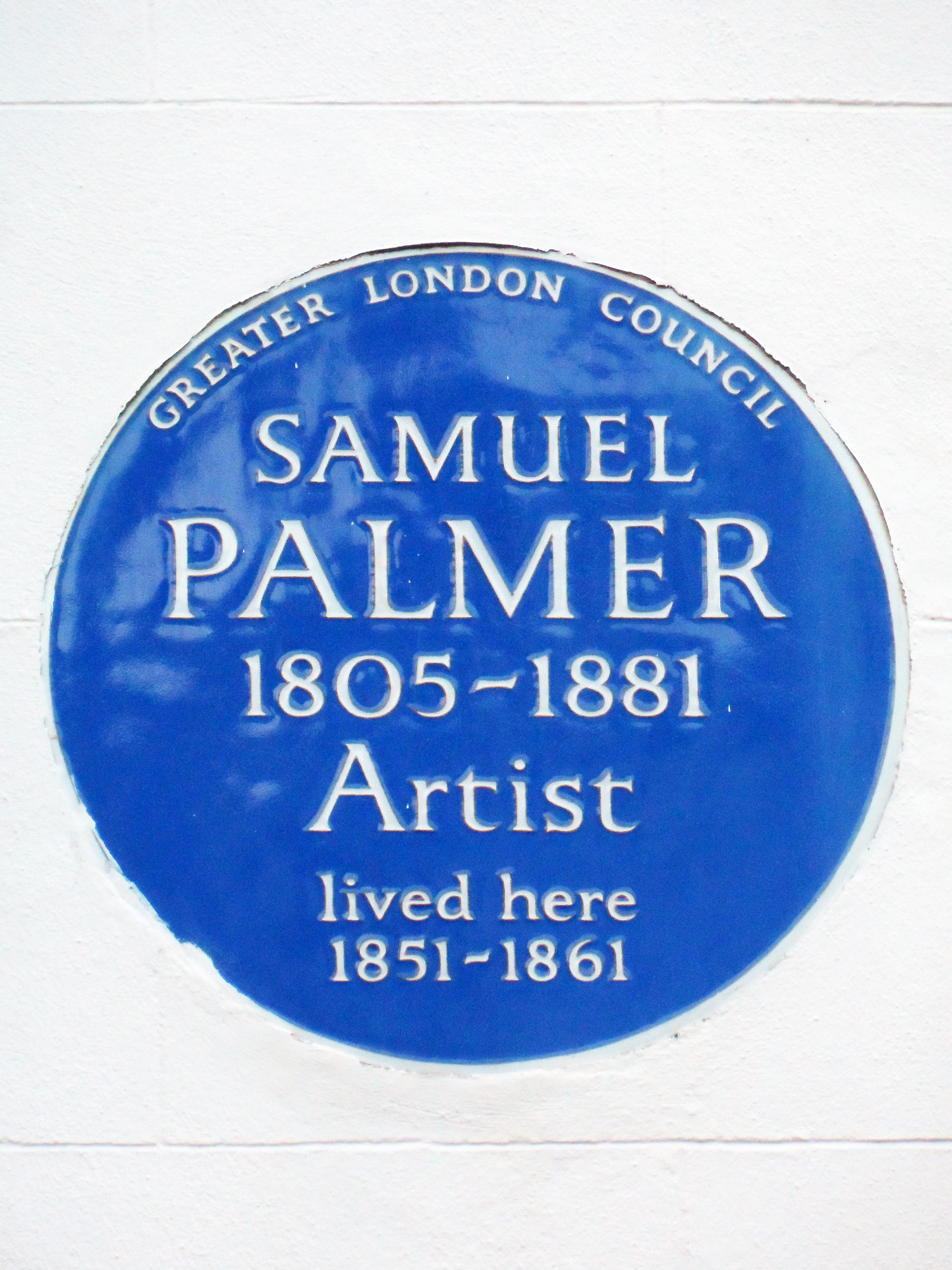 Blue plaque erected in 1972 by Greater London Council at 6 Douro Place, Kensington, London W8 5PH